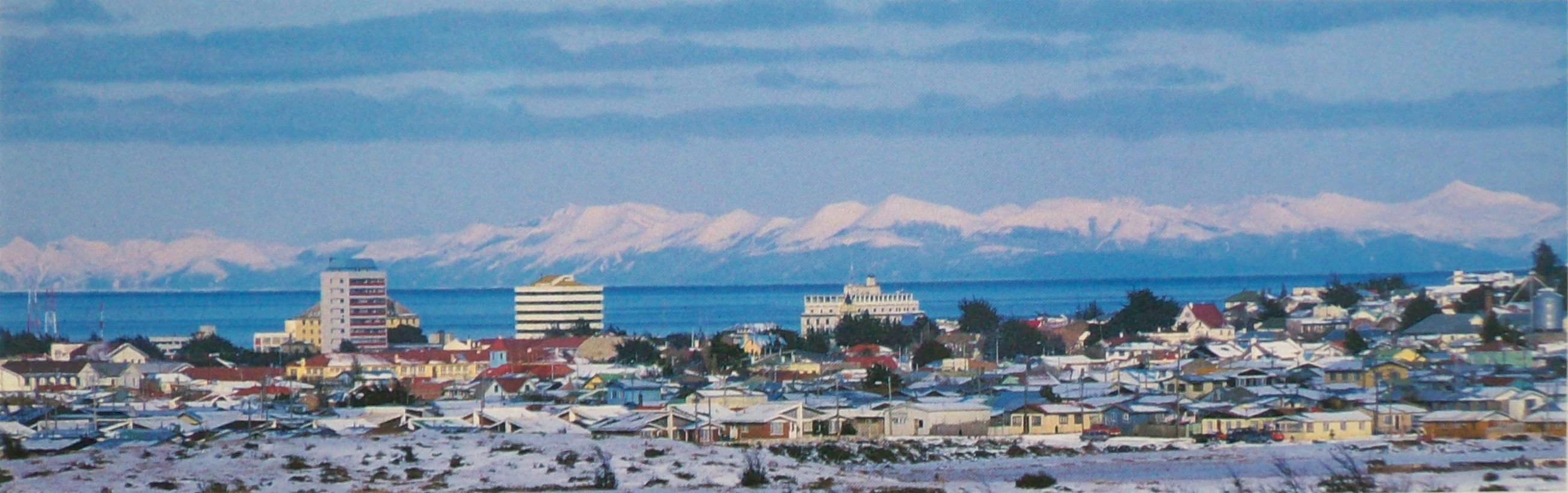 City in wintertime with further south the Darwin Mountain Range in Fireland.